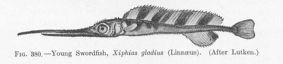 Young Swordfish, Xiphias gladius (Linnaeus) Subject: Swordfish Tag: Fish